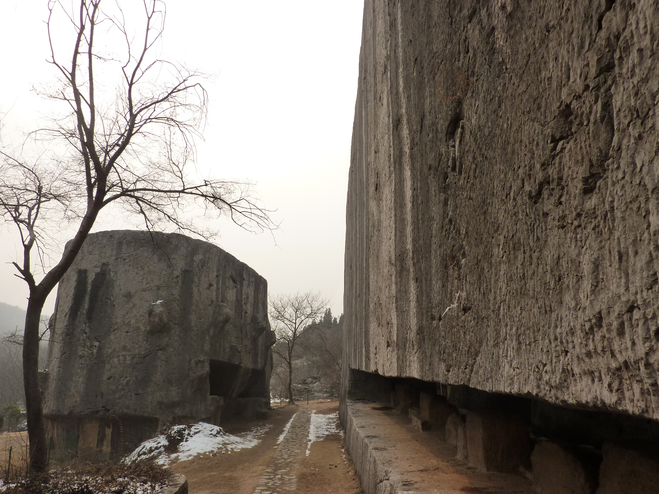 The Monument Body (right) and the Monument Head (left), in Yangshan Quarry, Nanjing. .